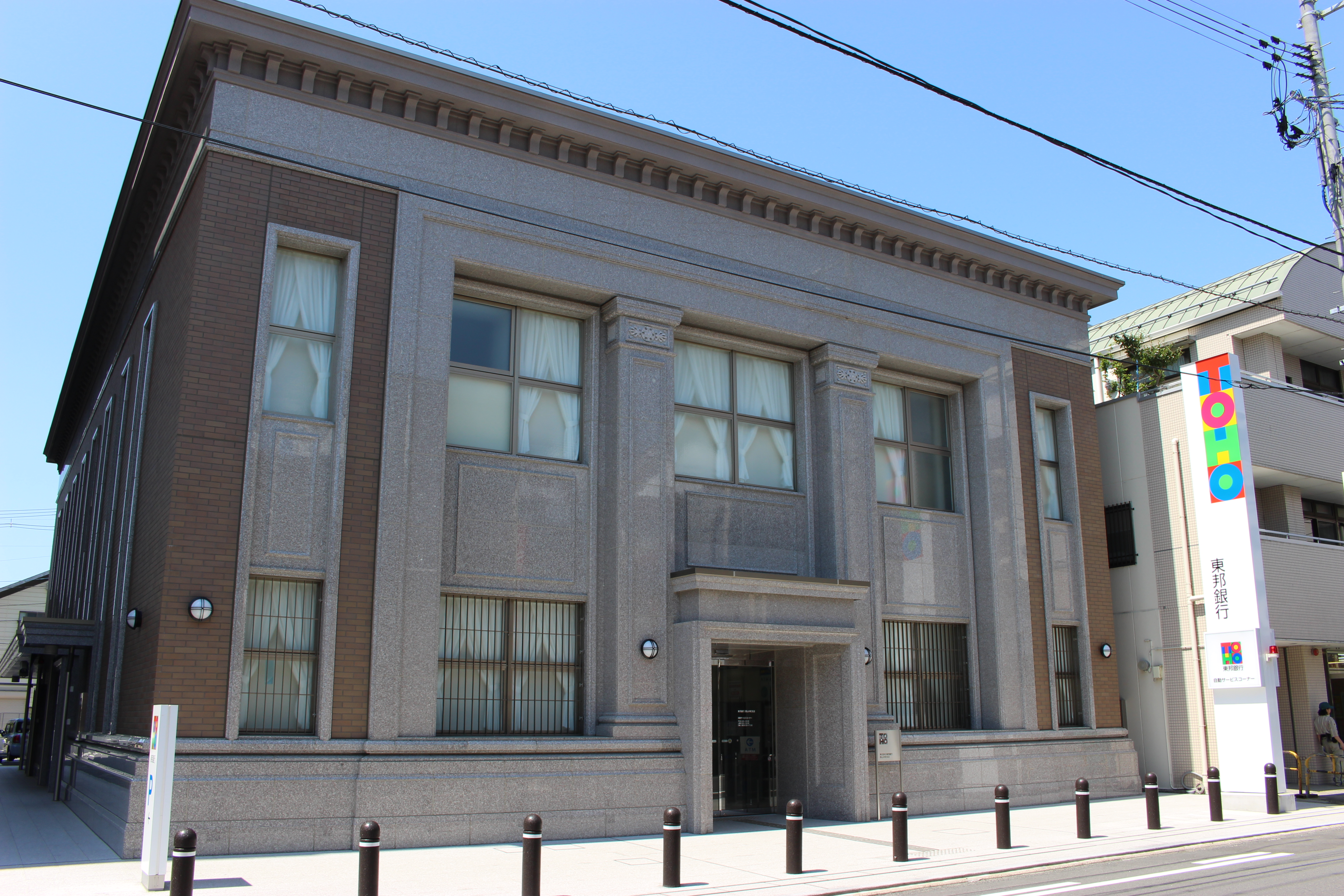 東邦銀行郡山中町支店（旧本店）